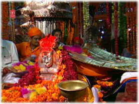 Baba Ramdev Pir